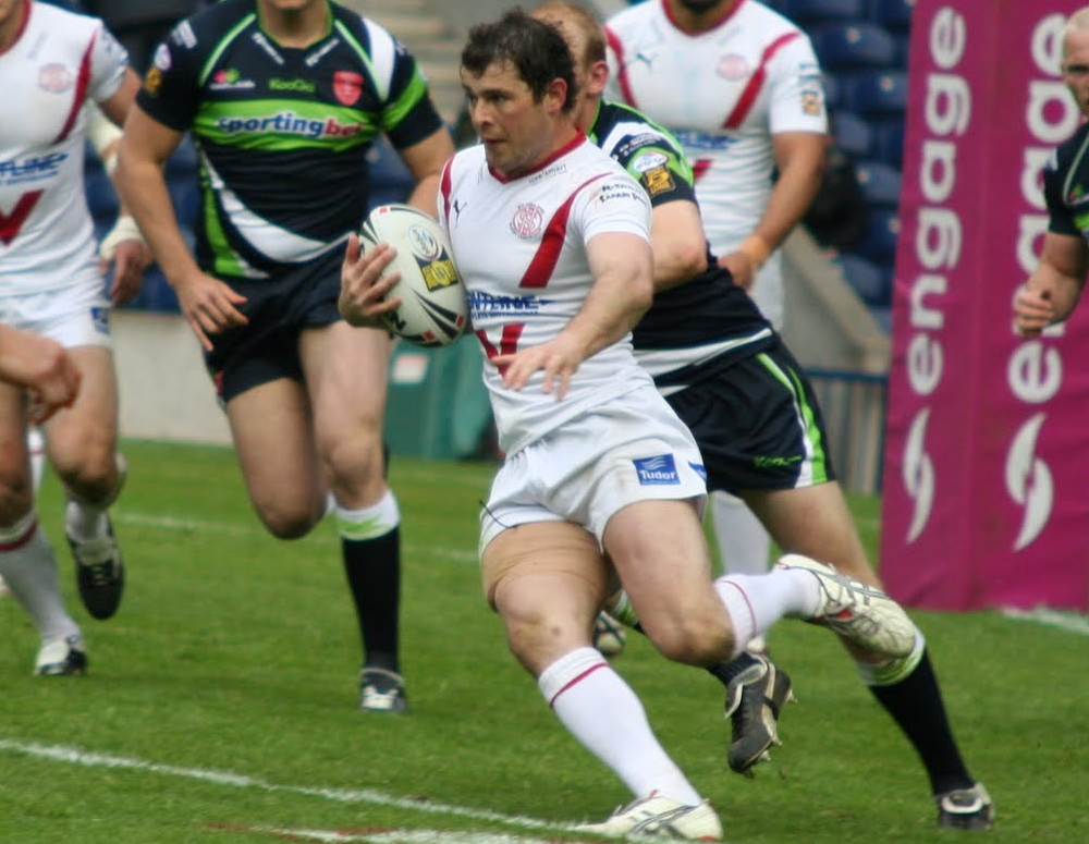 Paul Wellens Saints